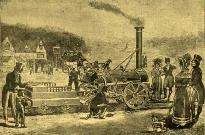 Northumbrian built by Robert Stephenson in 1830, book illustr.